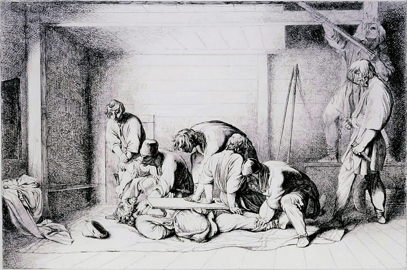 Blinding of Vasil.